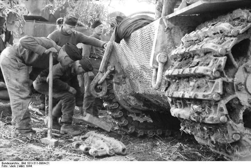 Information added by Wikimedia users.Schwere Panzer-Abteilung 508 (only Tiger unit that was near Nettuno at this time)[1]